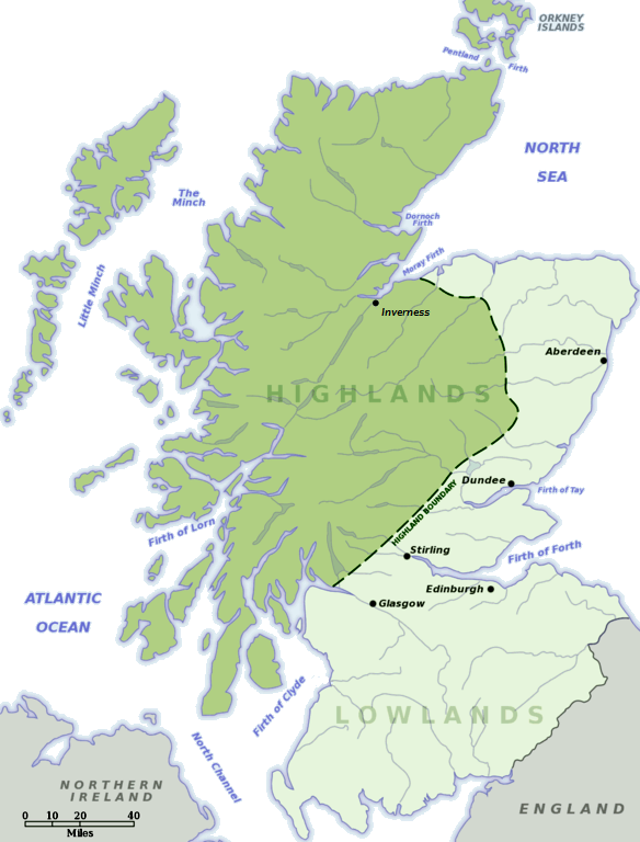 Maps of highlands and lowlands of Scotland.